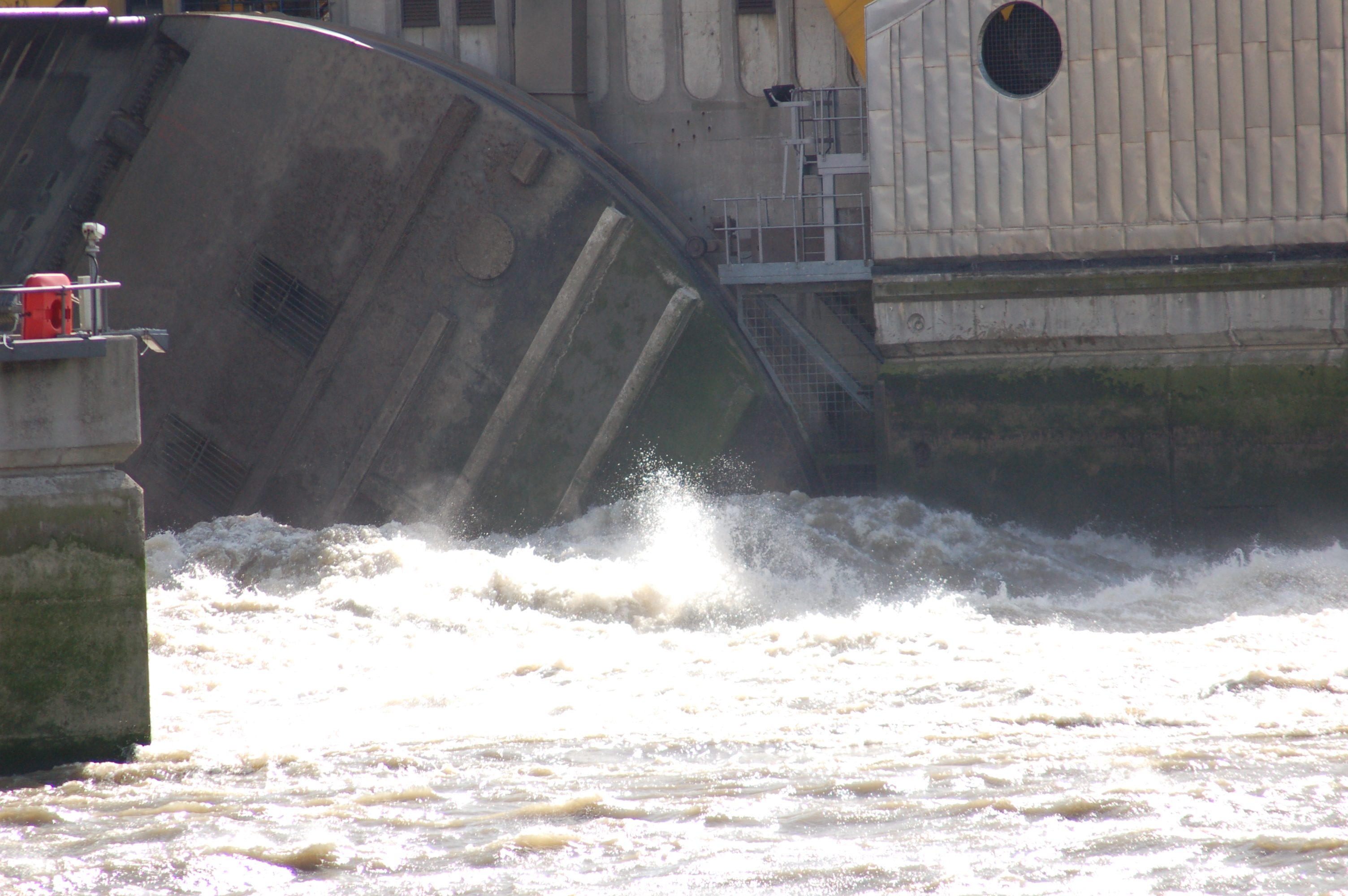 I admit it, I did it ... Kevin Thompson, if nothing else, pls attribute